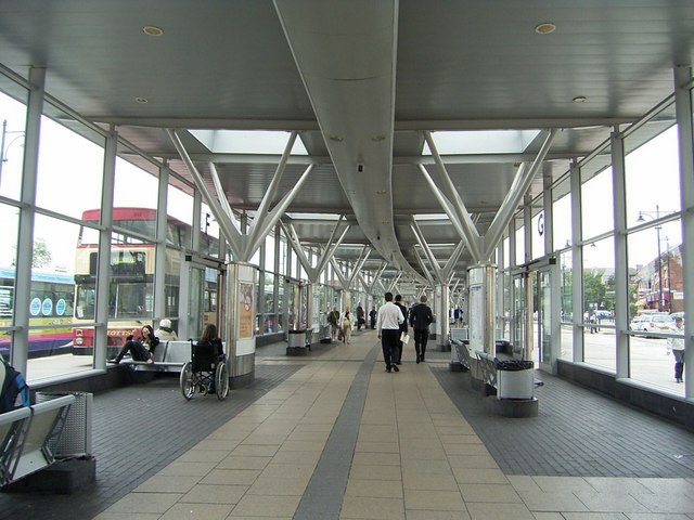 Oldham Bus Station